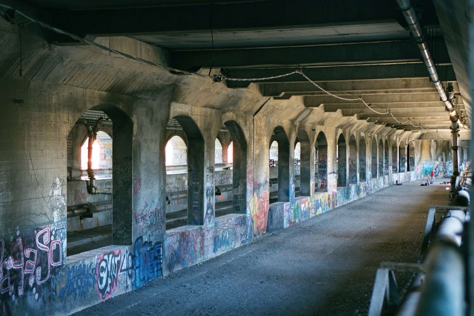 Canal bed of the former Erie Canal Aqueduct which was subsequently used for the Rochester Subway until 1956.